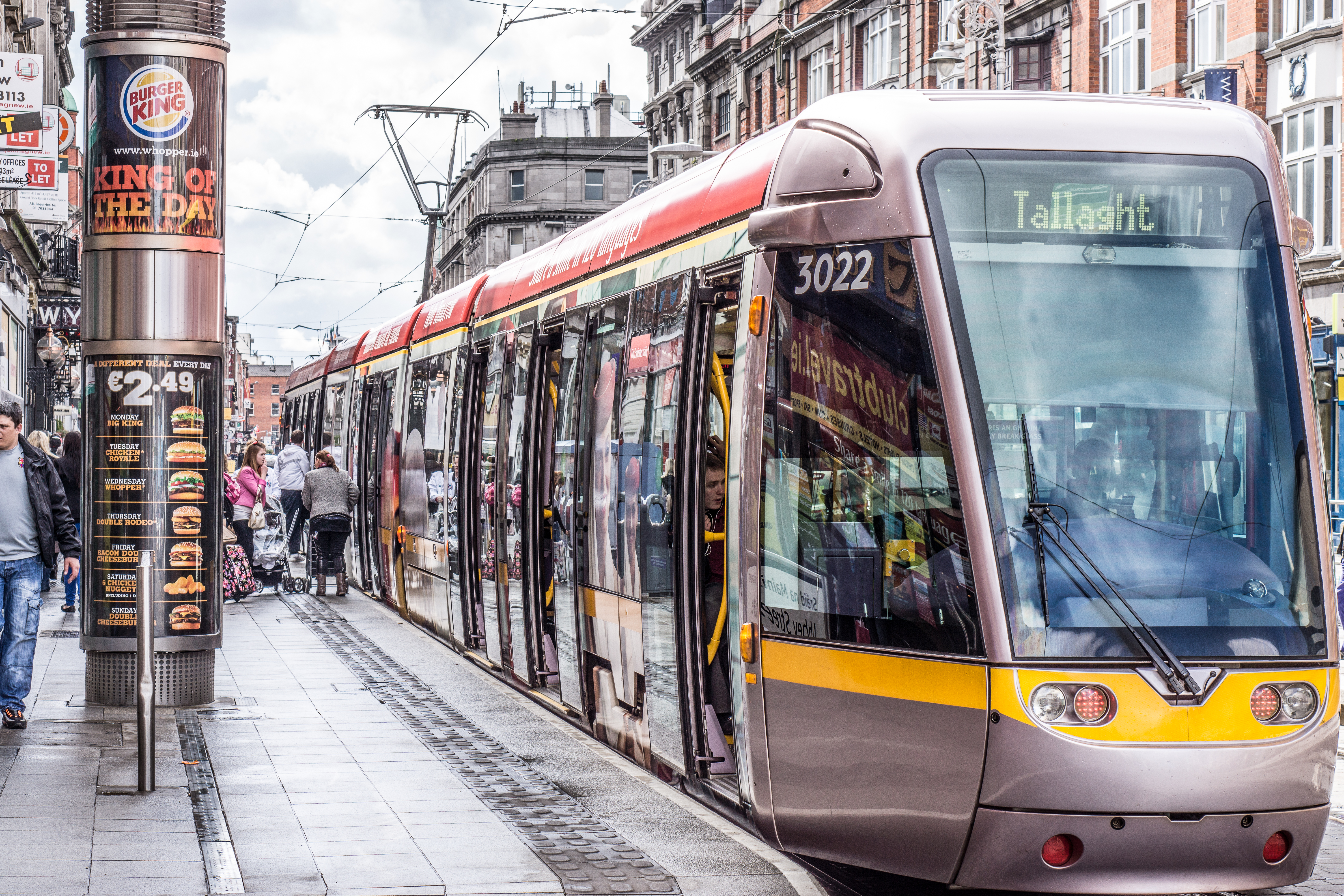 After many months my new SEL50F18 Sony E-Mount lens arrived yesterday and today I had an opportunity to to use it for the first time. Some people on the NEX form on DPREVIEW have complained that it makes a grinding sound when auto focusing … I can report that the one that I have is totally silent. I should also mention that I am now using Lightroom 4 to manage my workflow.